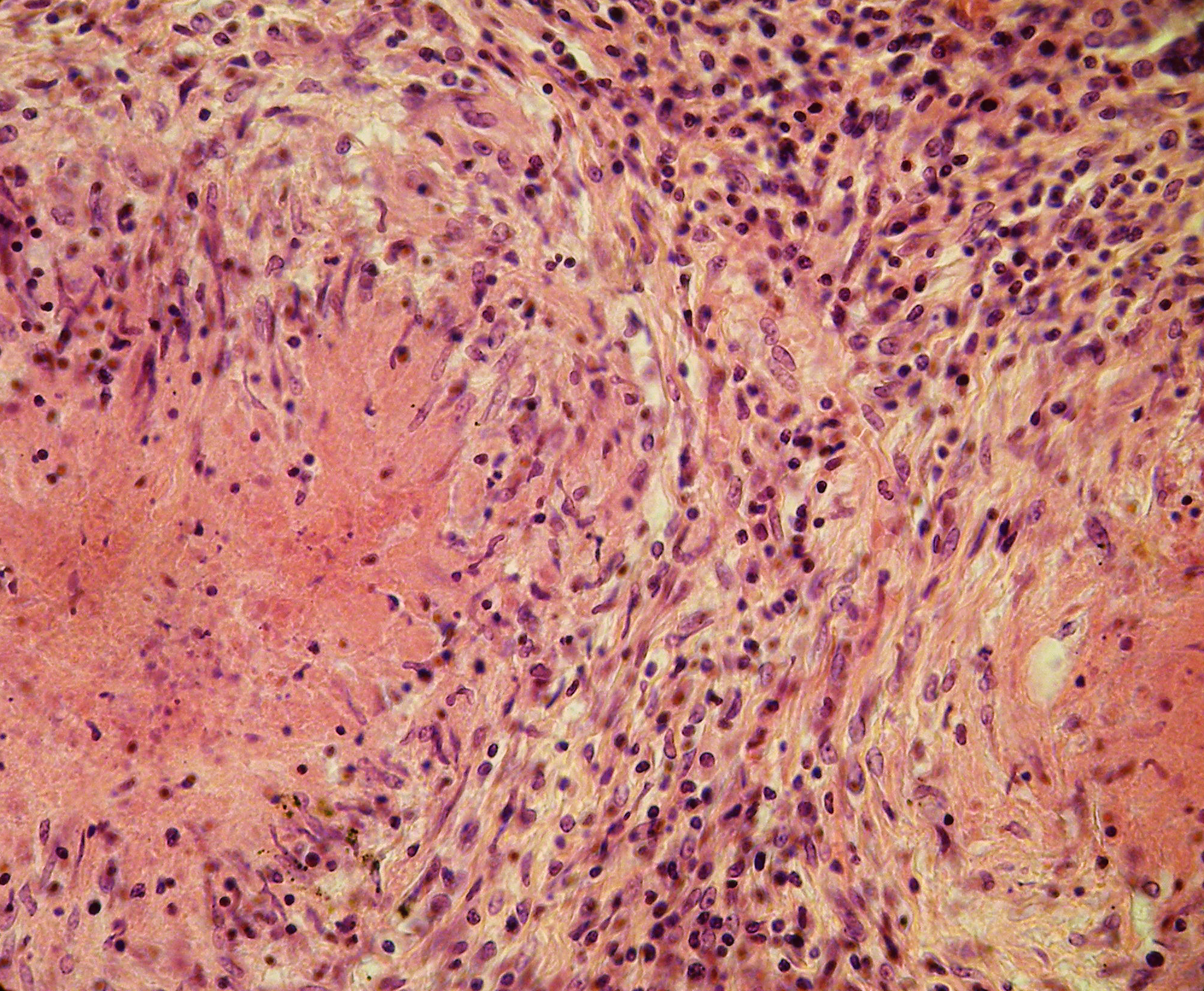 Epithelioid cells in caseating tuberculous granuloma. Epithelioid cells gather around the focus of necrosis, in direct contact with the necrotic masses, forming a kind of boundary zone. Tissue stained with Hematoxylin and Eosin.